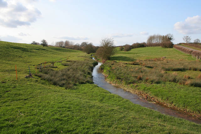 Brook between Pilton and Morcott Looking upstream. This brook is a tributary of the River Chater. Wing Road can be seen on the far right.